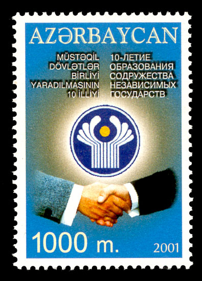 Stamp of Azerbaijan